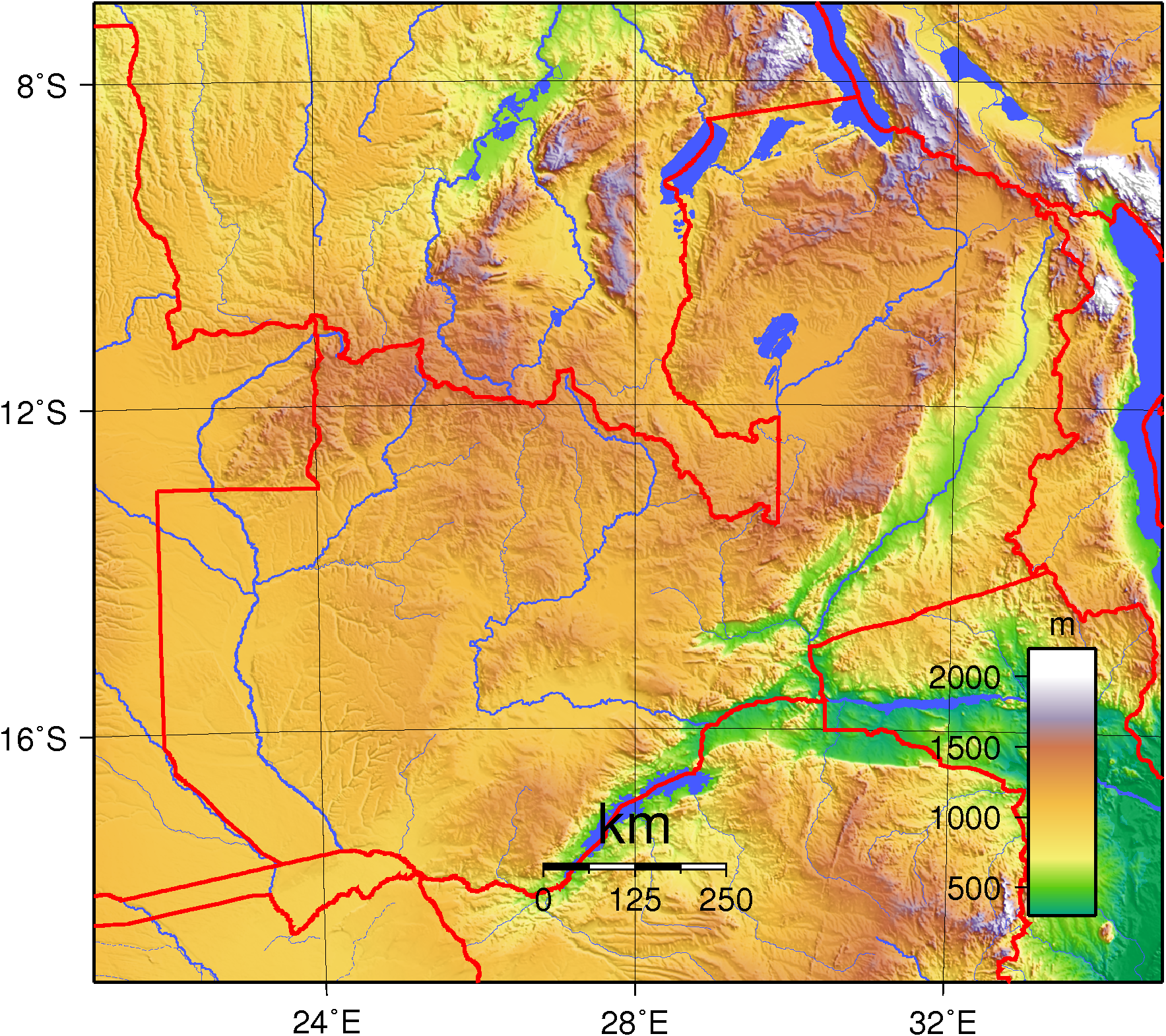 Topographic map of Zambia. Created with GMT from public domain GLOBE data.